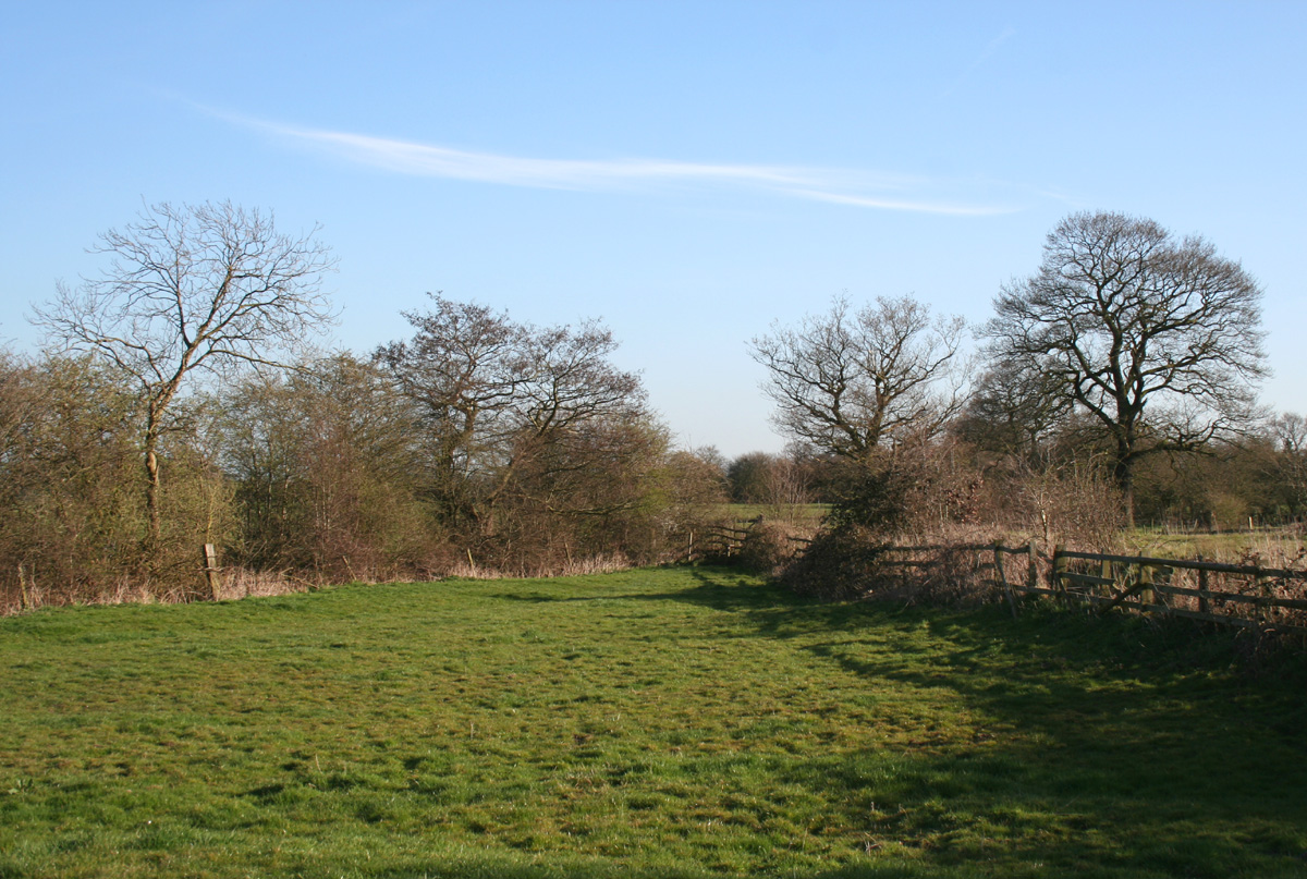 Farmland near Shavington, south of Crewe, Cheshire